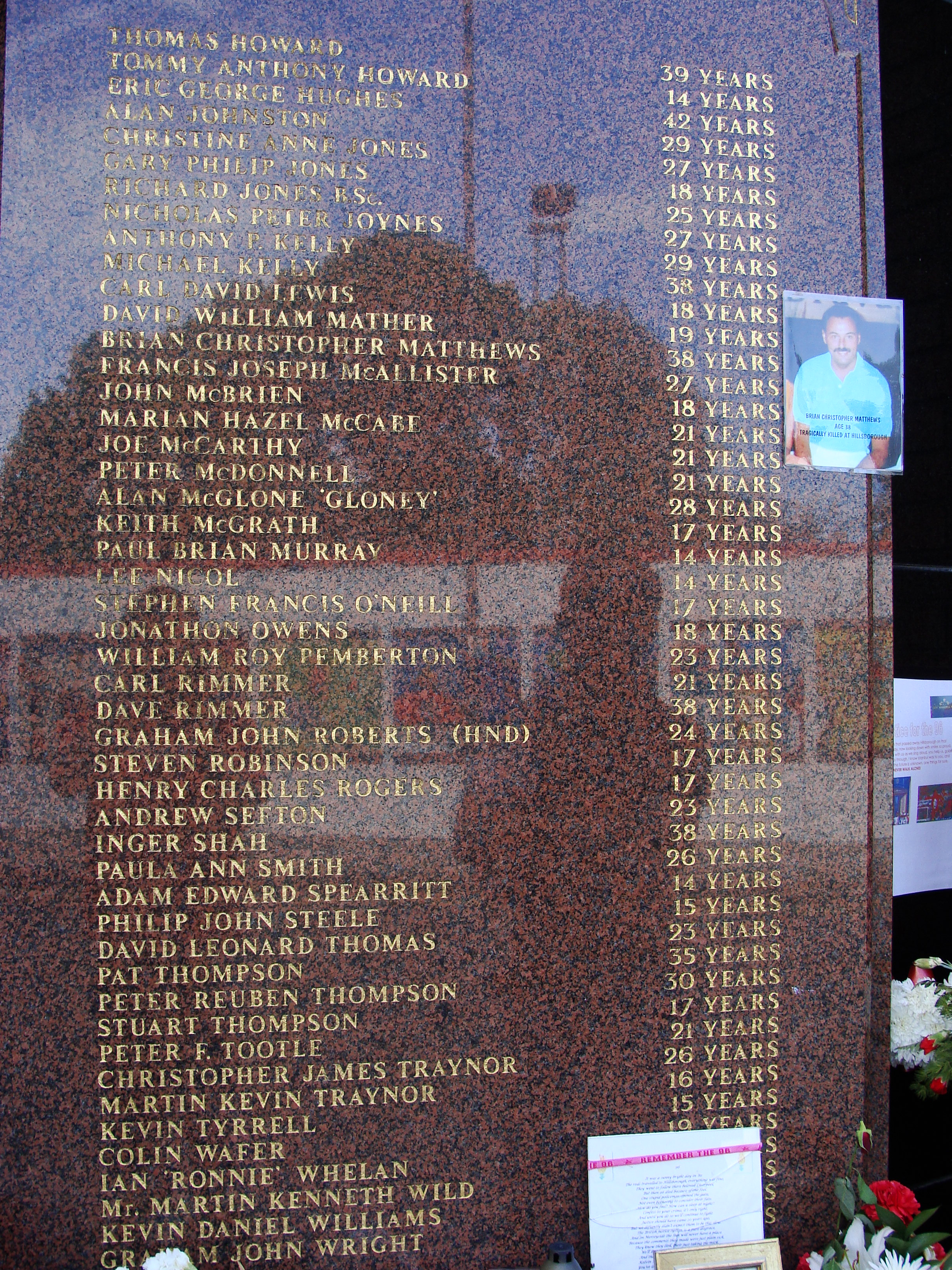 The right panal of the Hillsborough Memorial